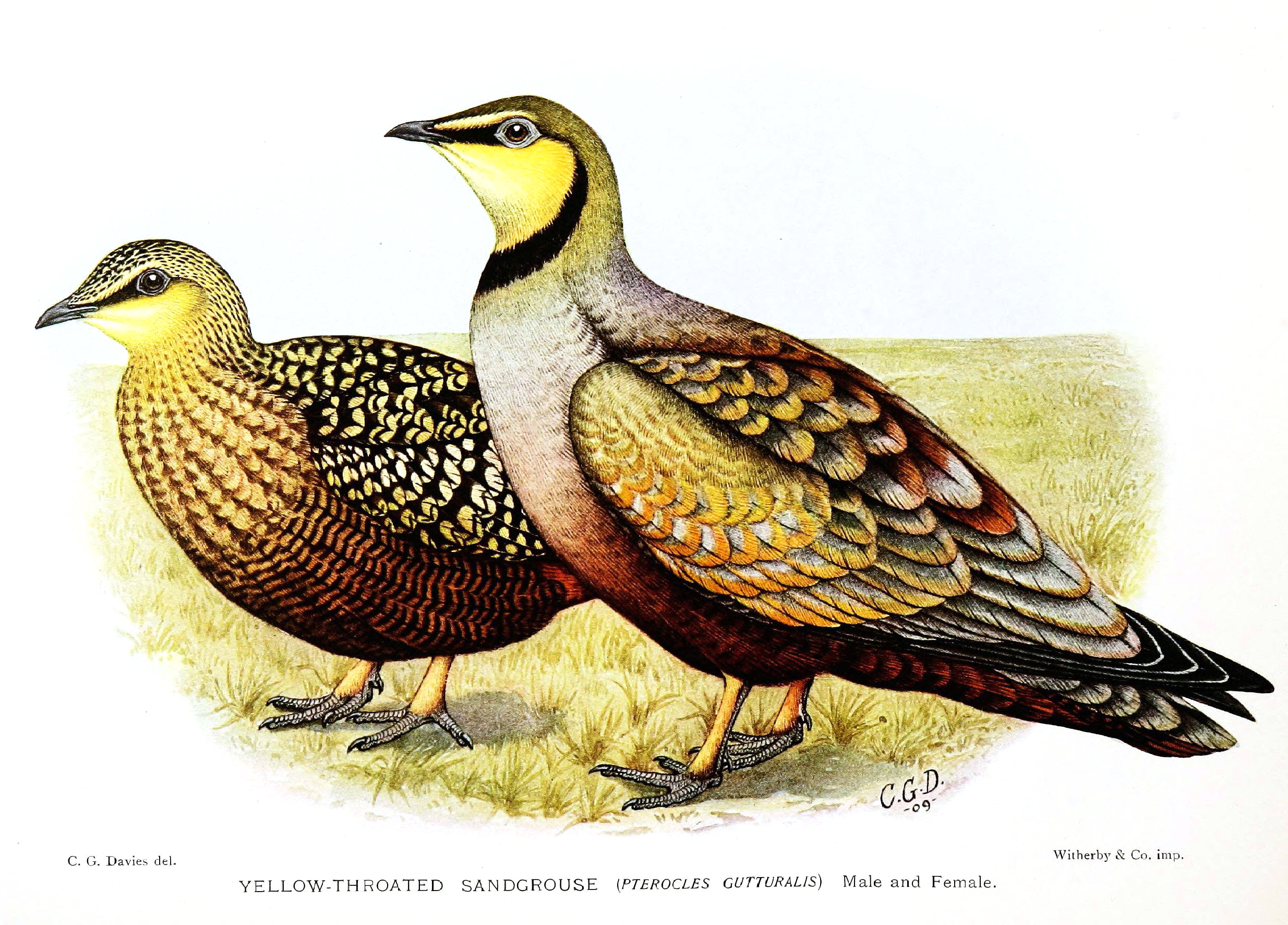 Female and male Yellow-throated sandgrouse illustrated by C. G. Finch-Davies